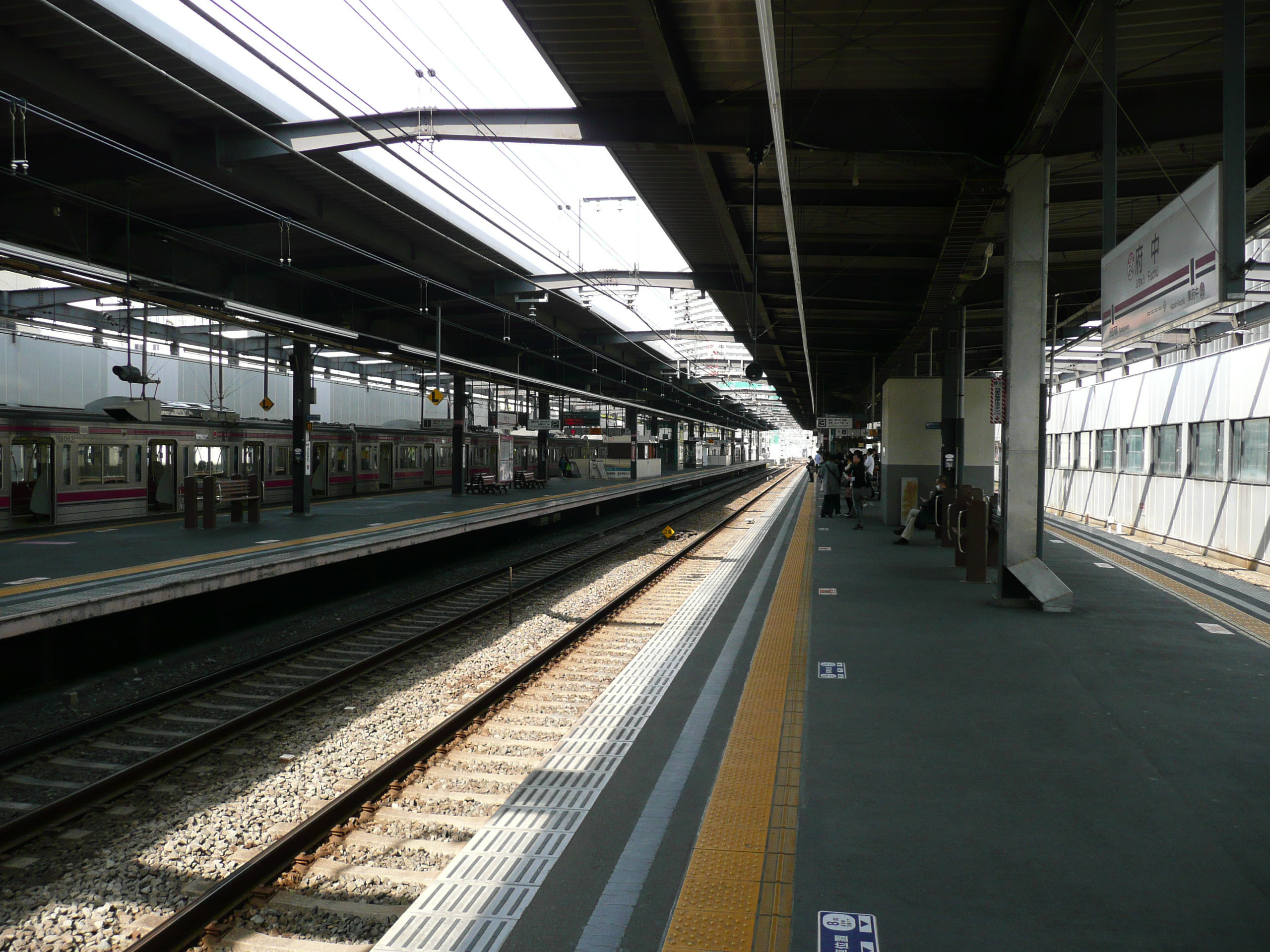 Platforms of Fuchū Station (Tokyo)